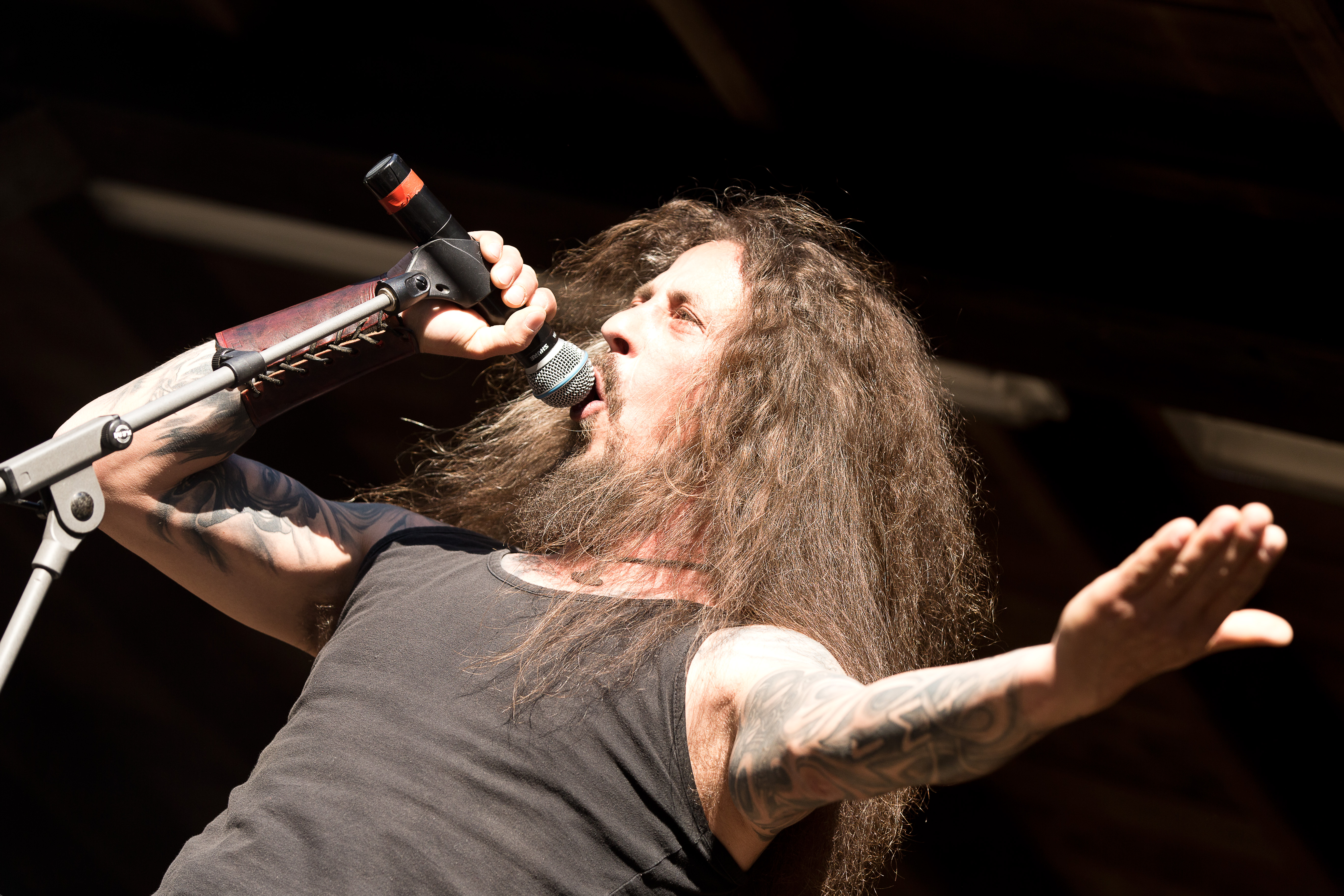 The German viking metal band Thudvangar at the Dark Troll Open Air 2016 in Bornstedt/Germany.